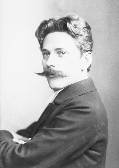 Ludwig Thuille (1861-1907), austrian composer